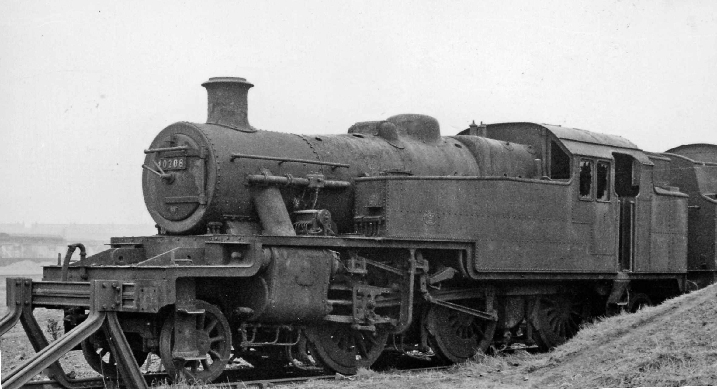 LMS Stanier 3MT 2-6-2T dumped at Trafford Park Locomotive Depot. View NE, with the main Shed probably off to the right. No. 40208 (built in 1938) had already been withdrawn in 11/61 and was awaiting scrapping, hence its dishevelled state.